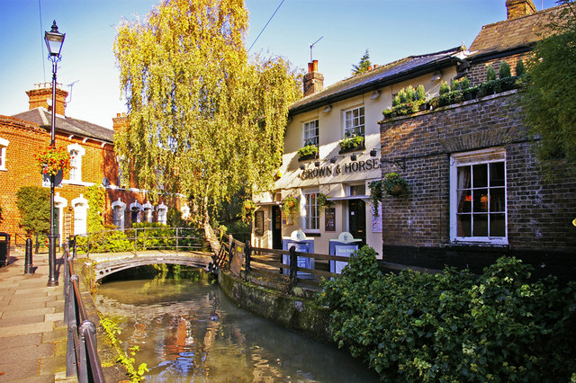 Crown and Horseshoes, River View, Enfield Looking across the New River Loop towards the Crown and Horseshoes public house.